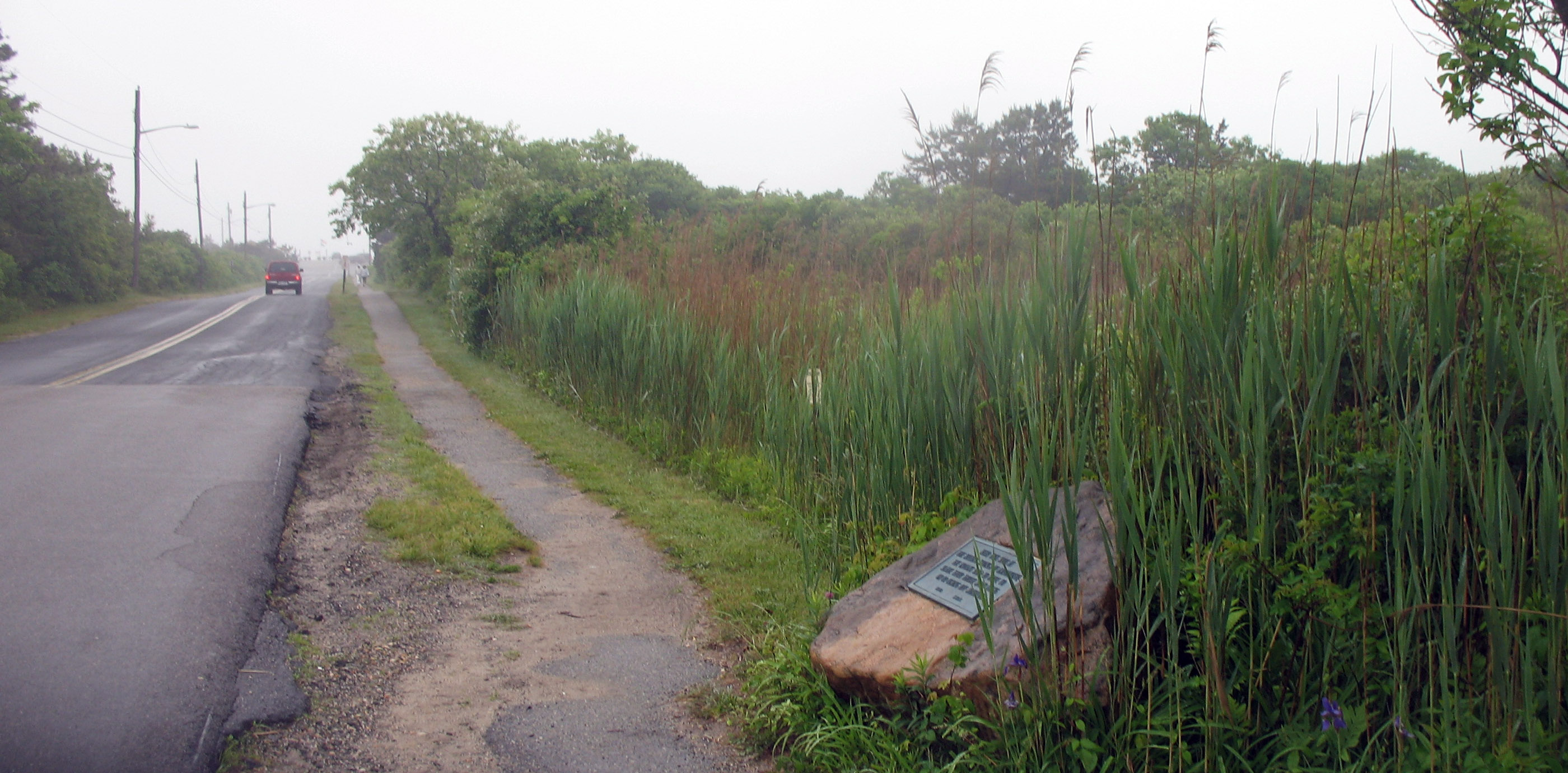 Marker at Indian Wells beach in Amagansett, New York showing the well from which the town got his name. Photo by poster in June 2007.